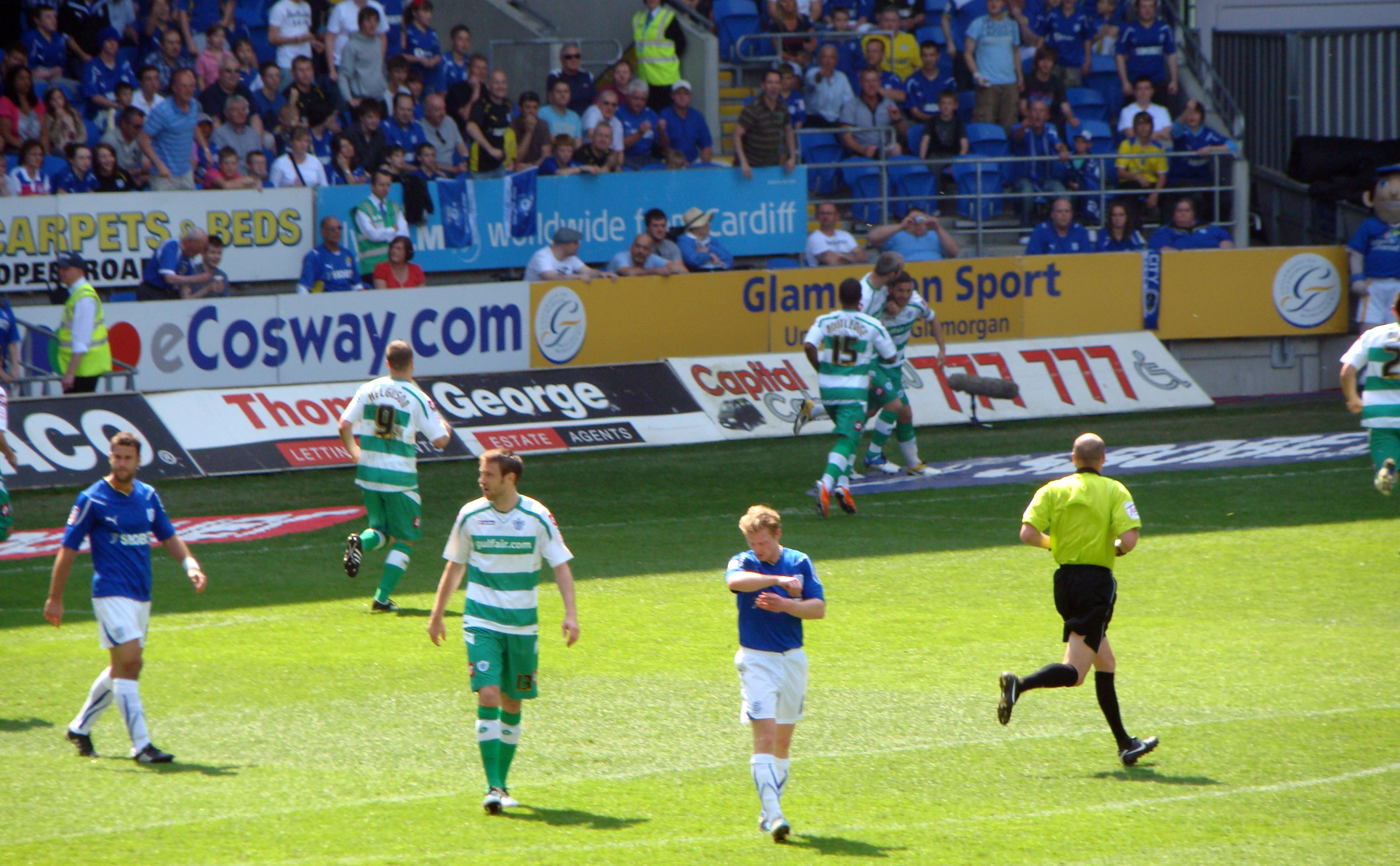 Taarabt celebrates goal in Cardiff vs QPR, 23/04/2011, Championship